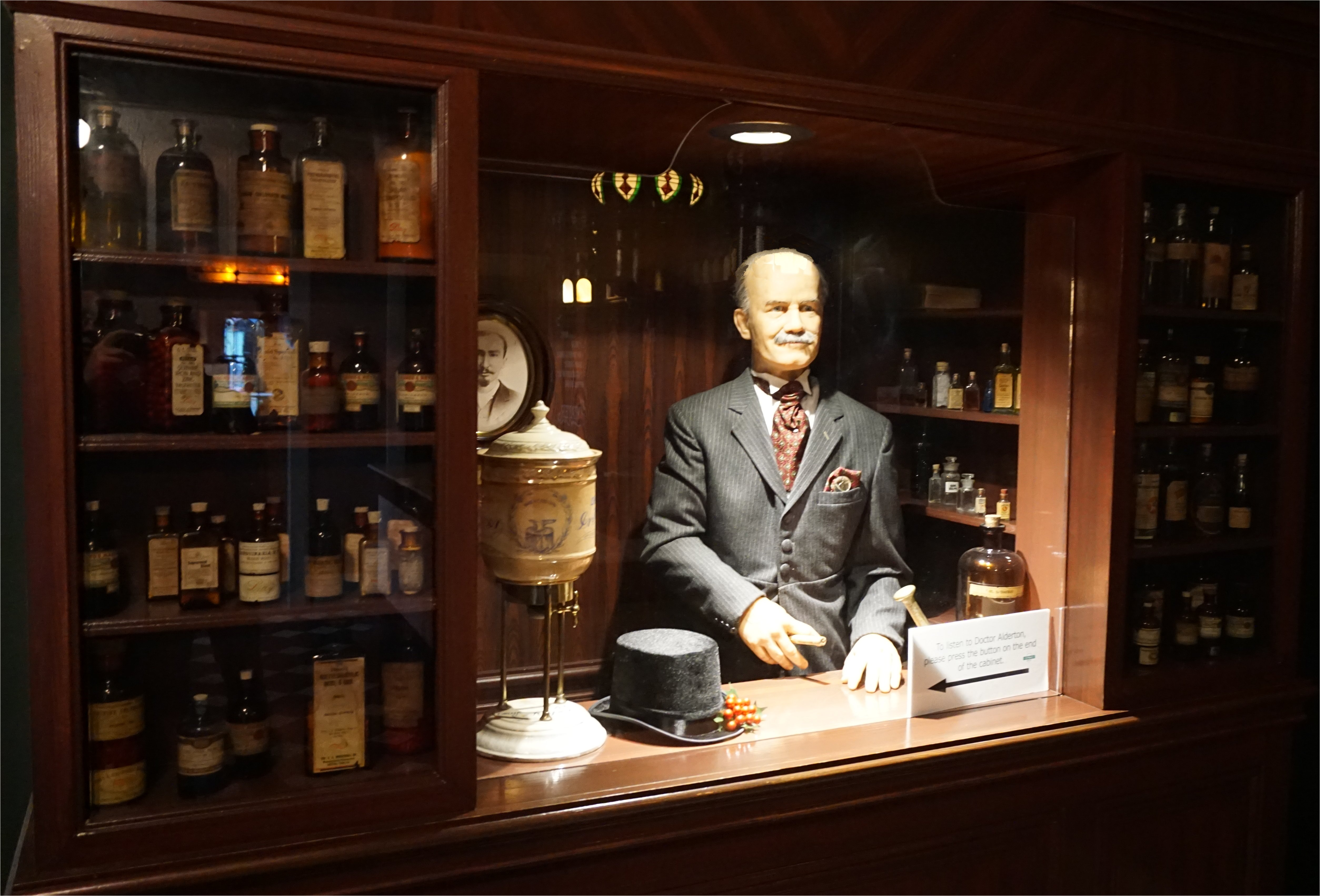 Morrison Old Corner Drug Store replica from exhibit at the Dr Pepper Museum in Waco, Texas (United States).